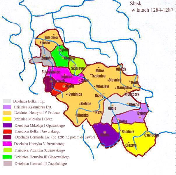 Political map of Silesia 1284-1287